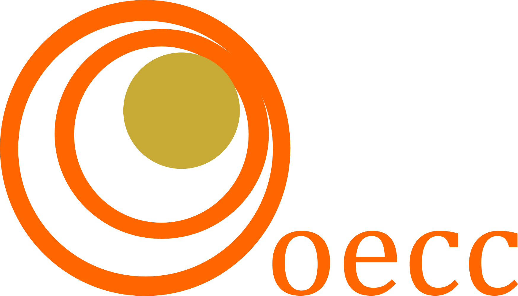 Logotipo de la OECC